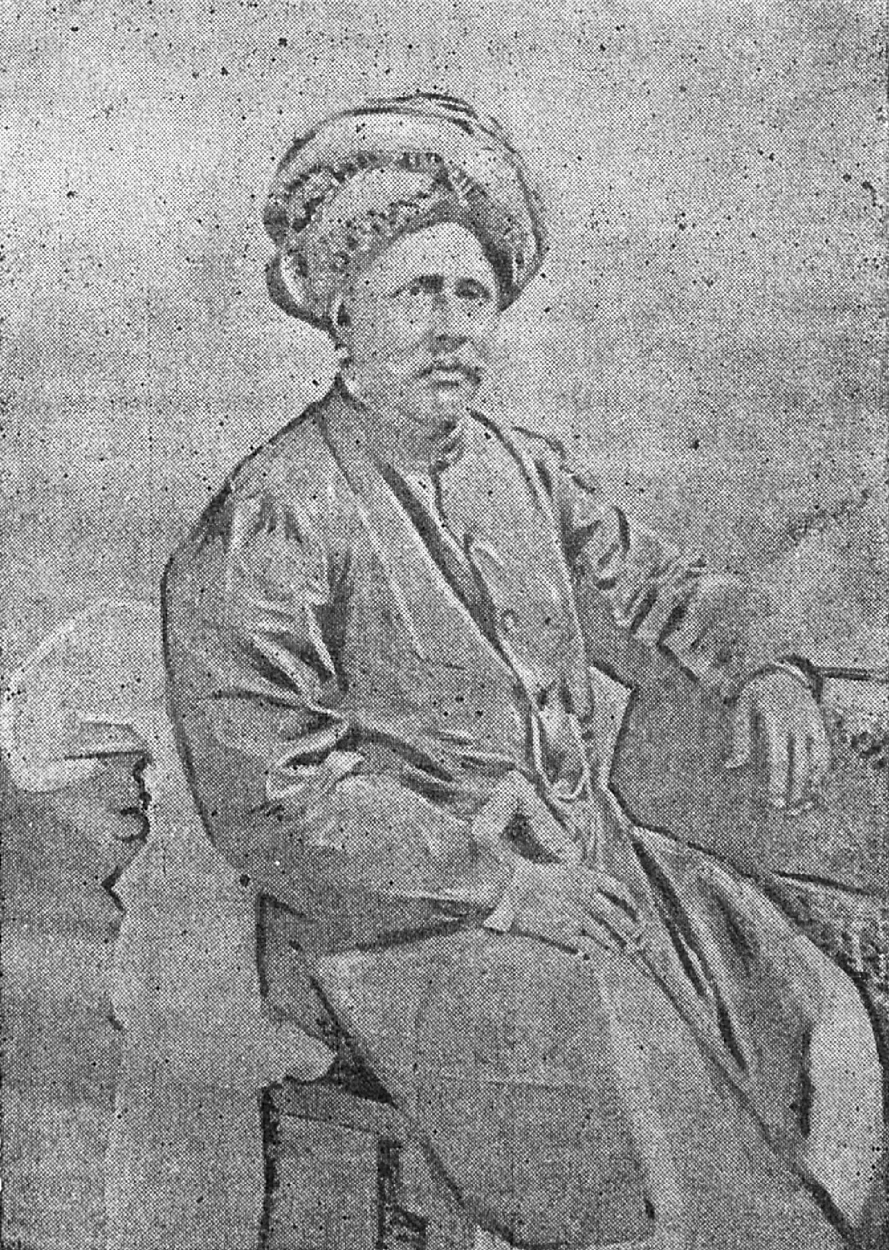 C. W. Damodaram Pillai (1832–1901)